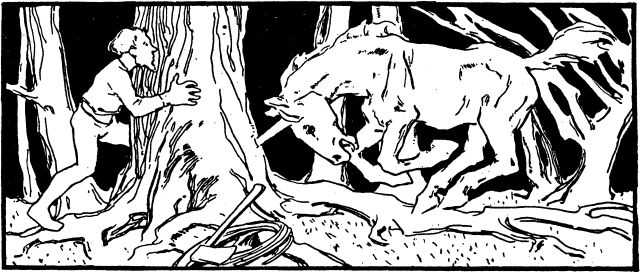 Illustration by Otto Ubbelohde to the fairy tale The Brave Little Tailor